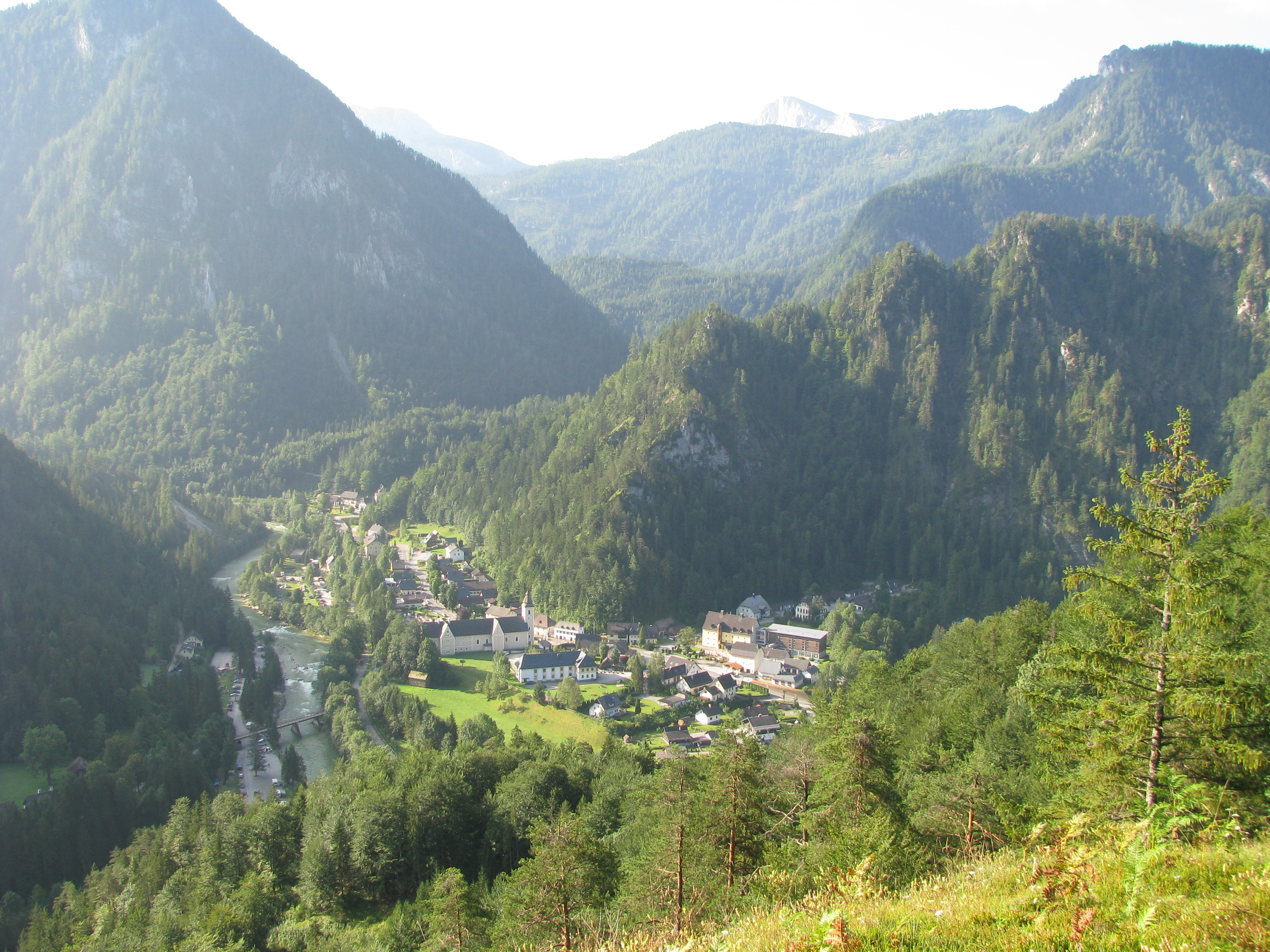 Wildalpen - perspective from hill Löwekogel